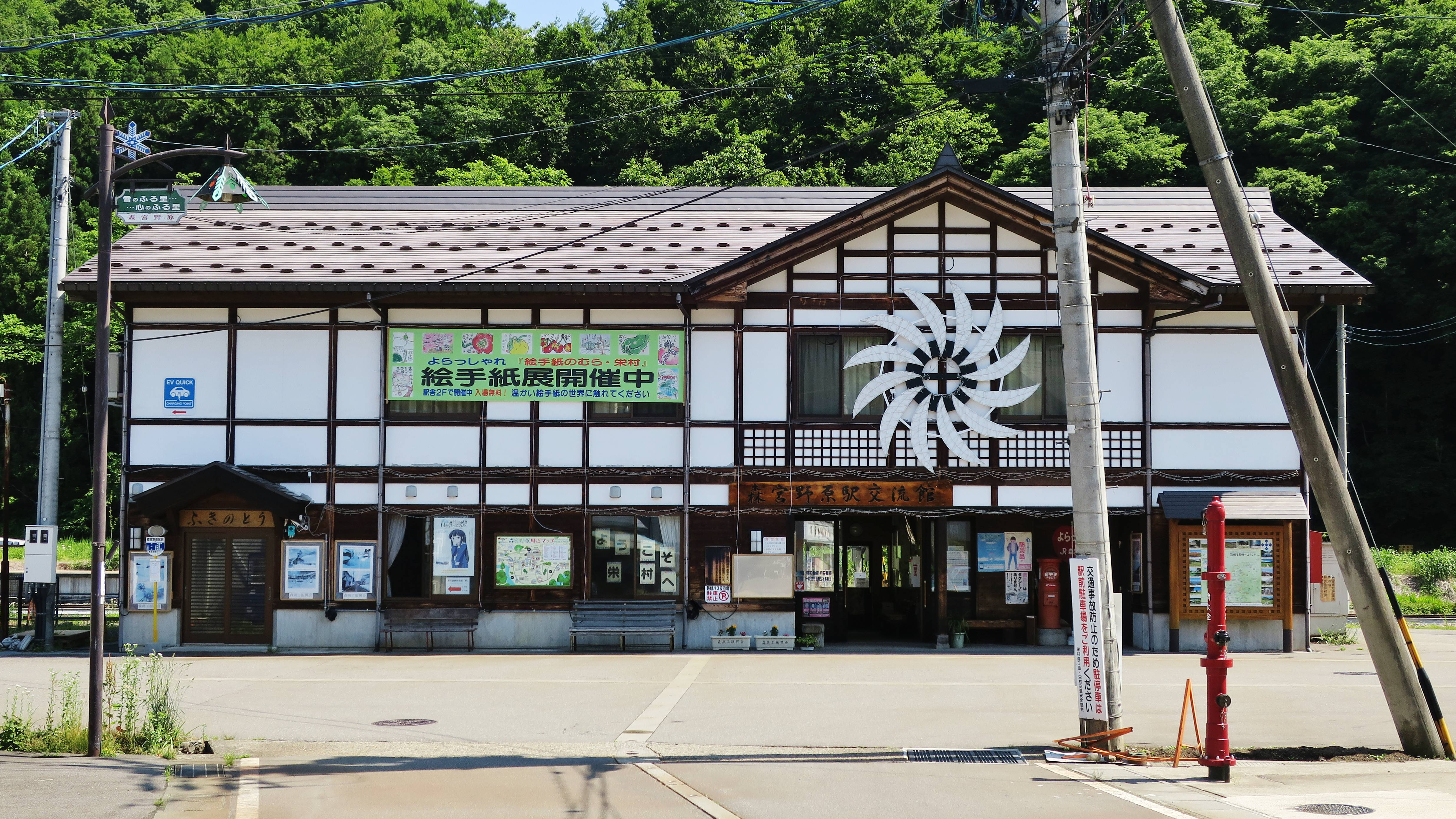 Morimiyanohara Station (Sakae, Nagano).